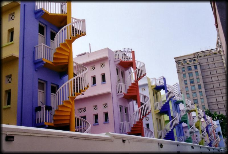 The backs of colourful houses with spiral staircases near Bugis MRT Station in Bugis, Singapore. (For more pictures, please